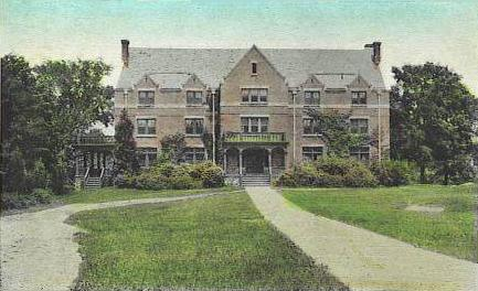 Smith Hall, University of New Hampshire, Durham, NH; from a c. 1915 postcard.